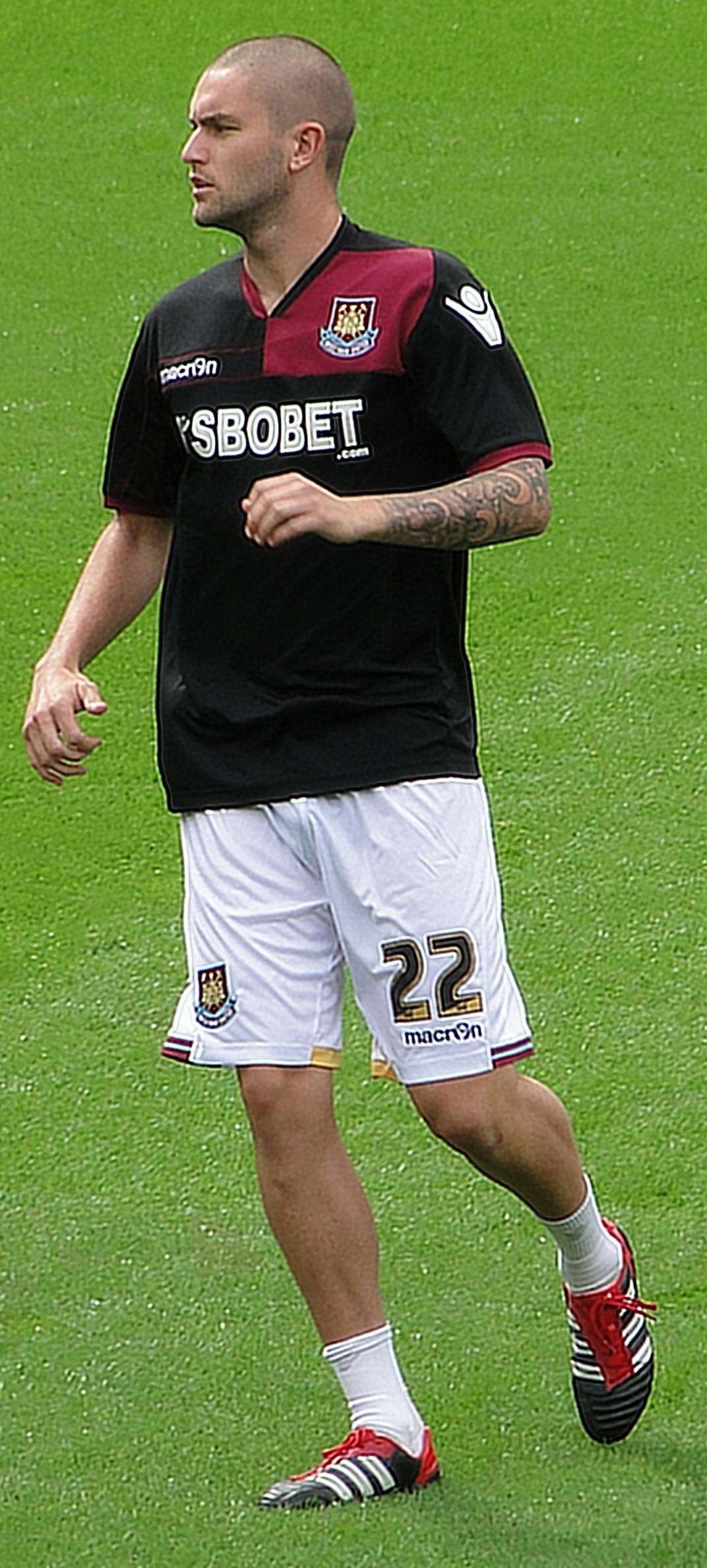 Henri Lansbury warming-up for West Ham United before his debut game against Portsmouth at The Boleyn Ground